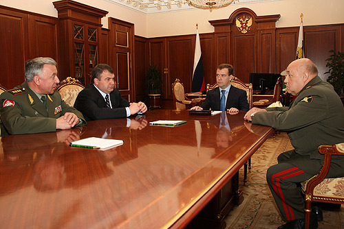 THE KREMLIN, MOSCOW. Working meeting with Defence Minister Anatoly Serdyukov, Nikolai Makarov who has been appointed Chief of General Staff of the Russian Armed Forces, and Yury Baluyevsky who has been appointed Deputy Secretary of the Russian Security Council.